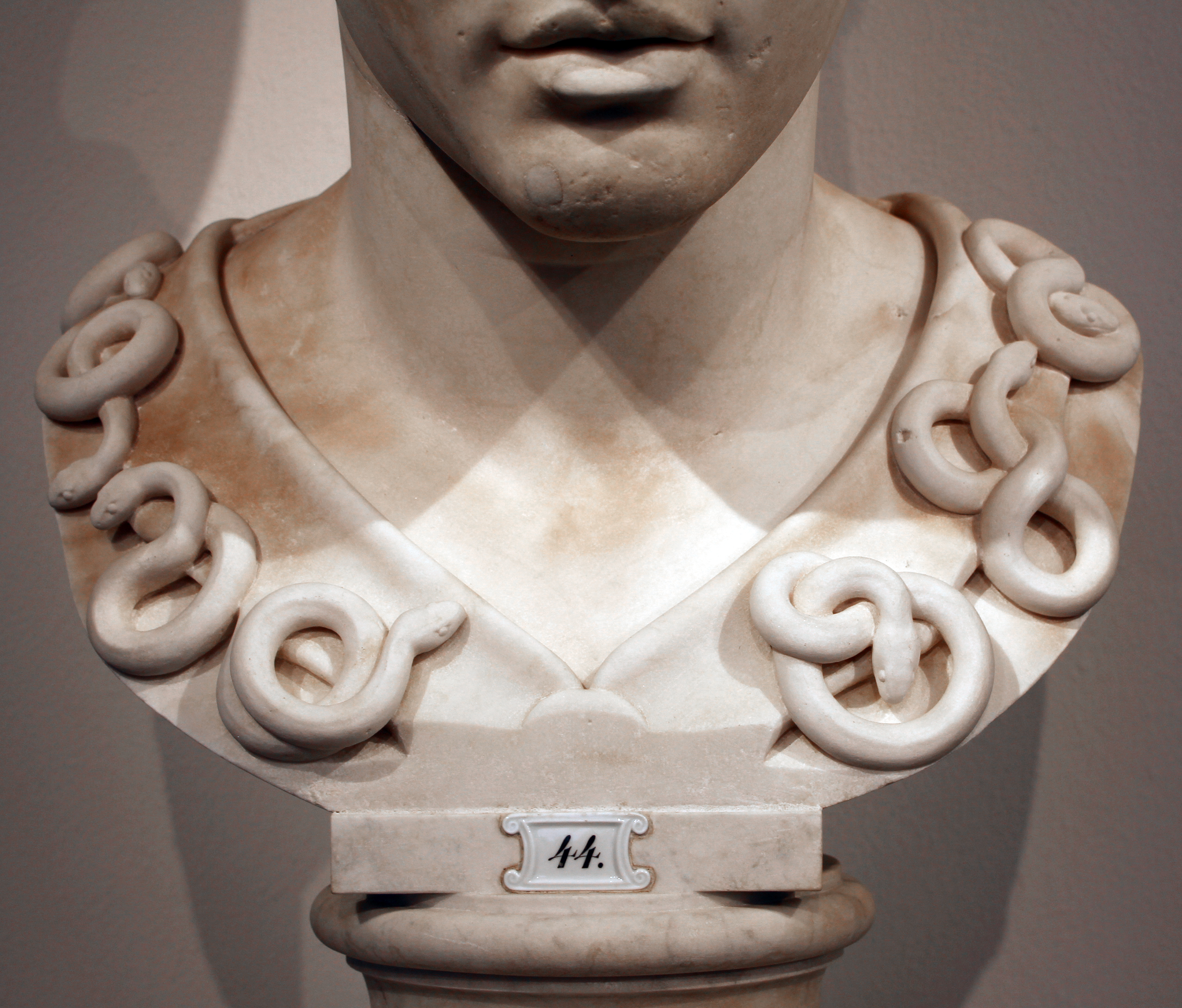 Ancient Greek sculptures in the Antikensammlung Berlin